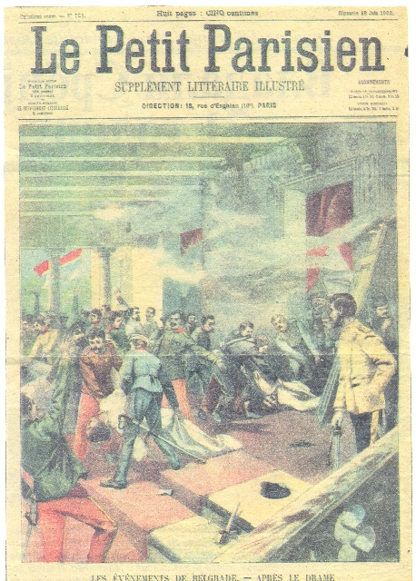 Artistic vision of May Overthrow